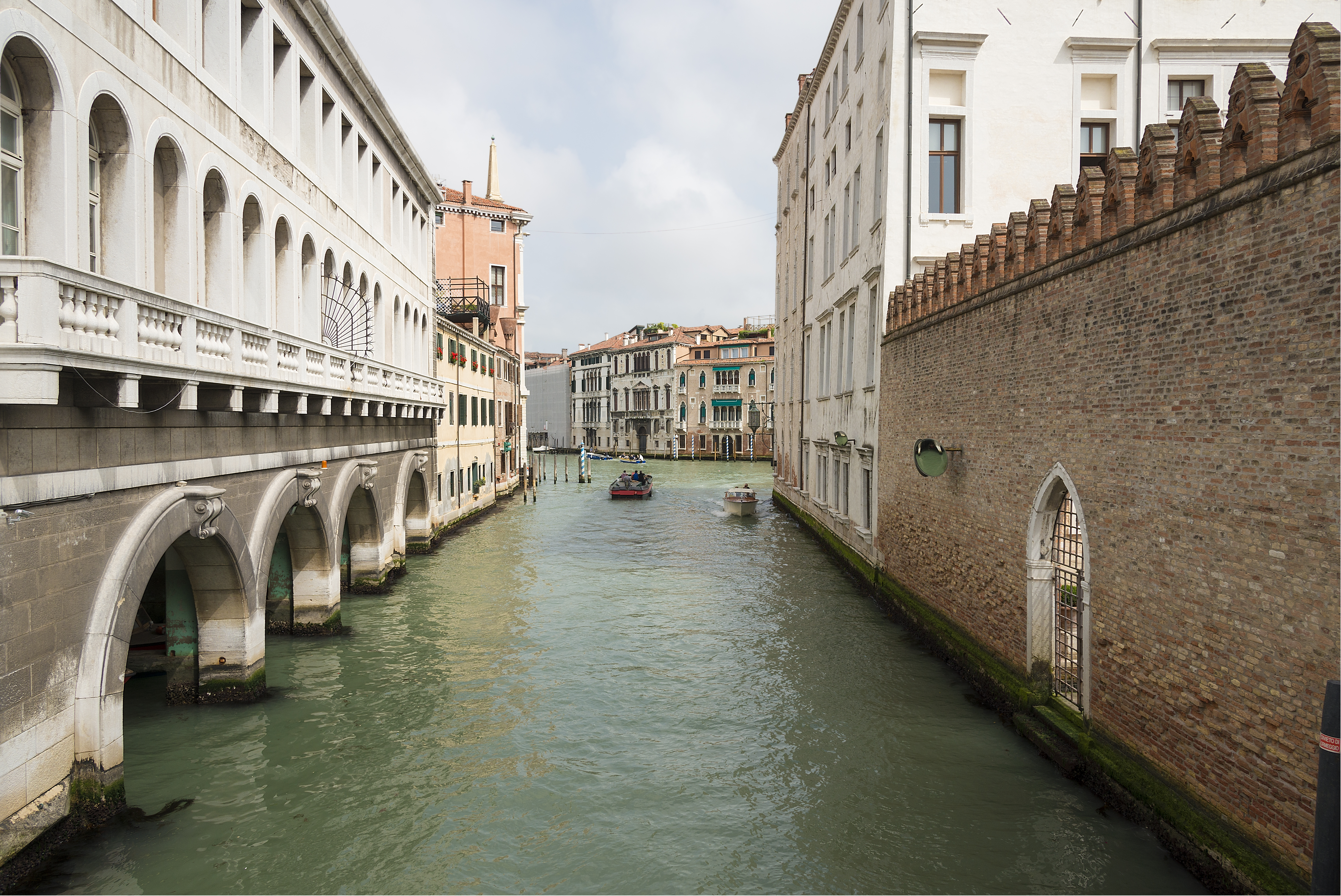 Rio di Ca Foscari Venice View from the Bridge Foscari, to the Grand Canal.